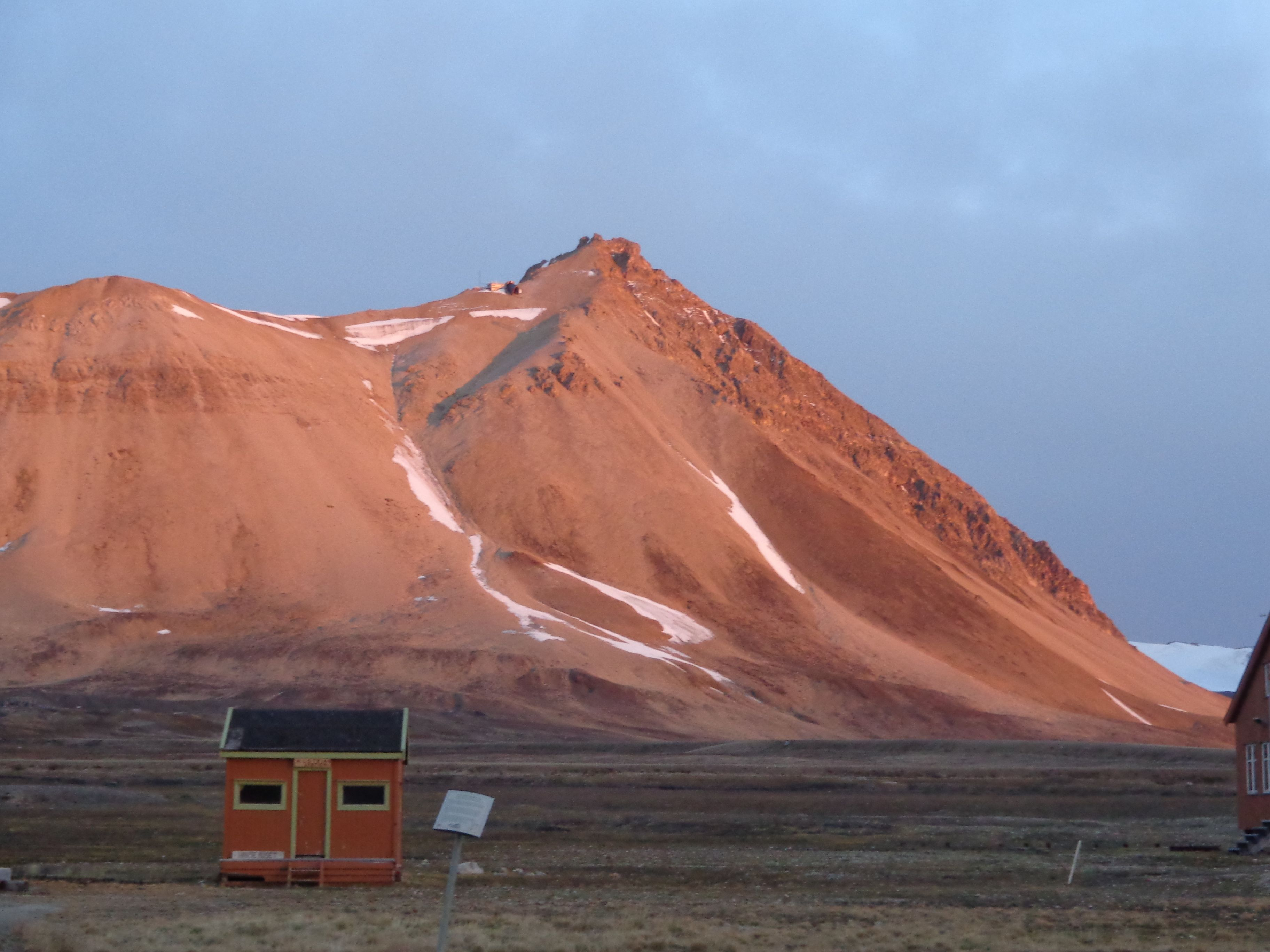 Zeppelinfjellet, Ny-Ålesund